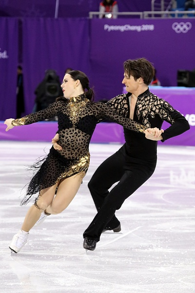 Tessa Virtue and Scott Moir at the 2018 Winter Olympic Games in PyeongChang